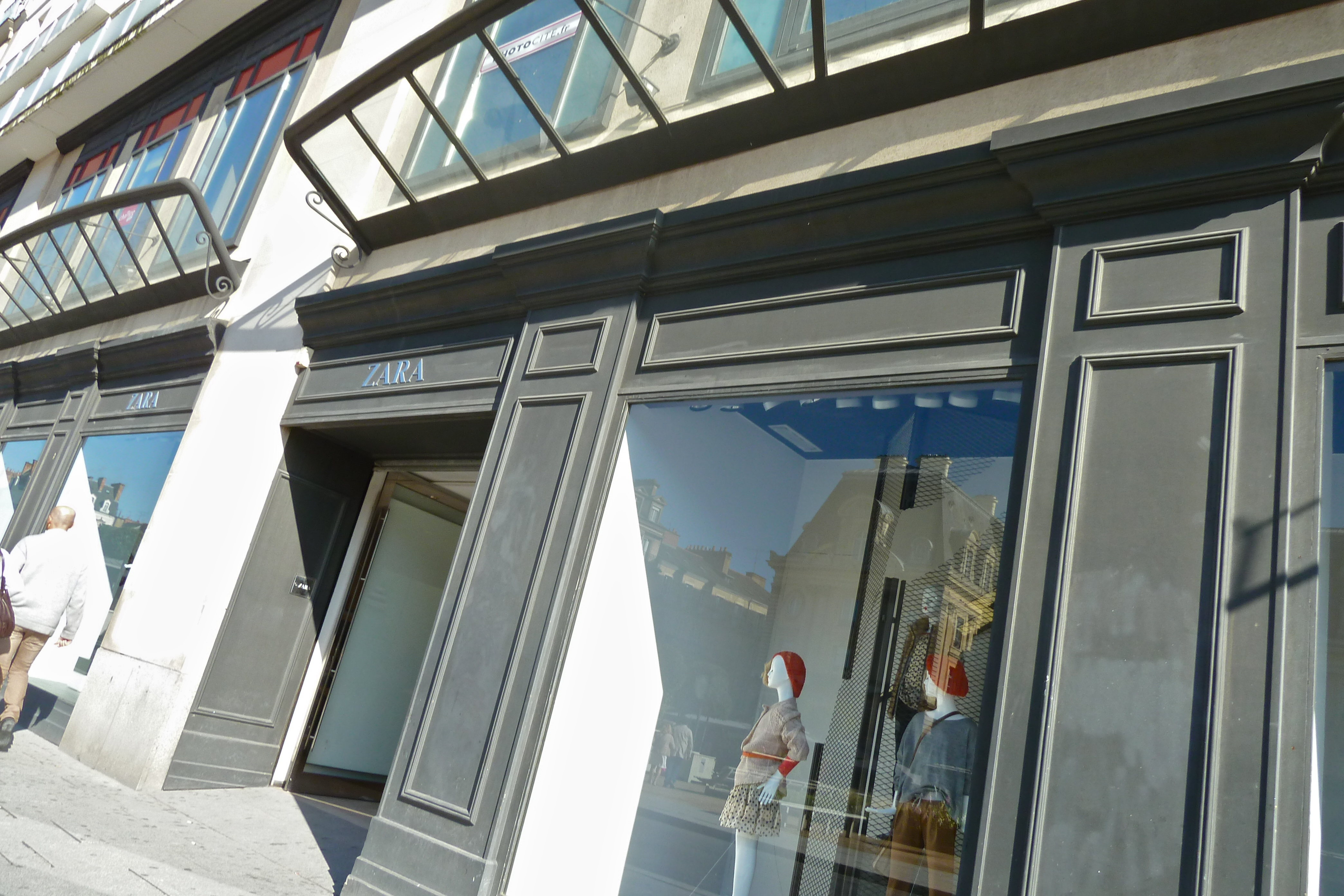 Zara Store in Rennes (Ille-et-Vilaine, France).